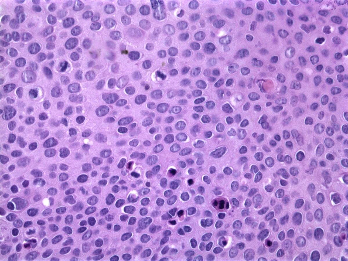 Squamous cell carcinoma in-situ, H&E, 40×.